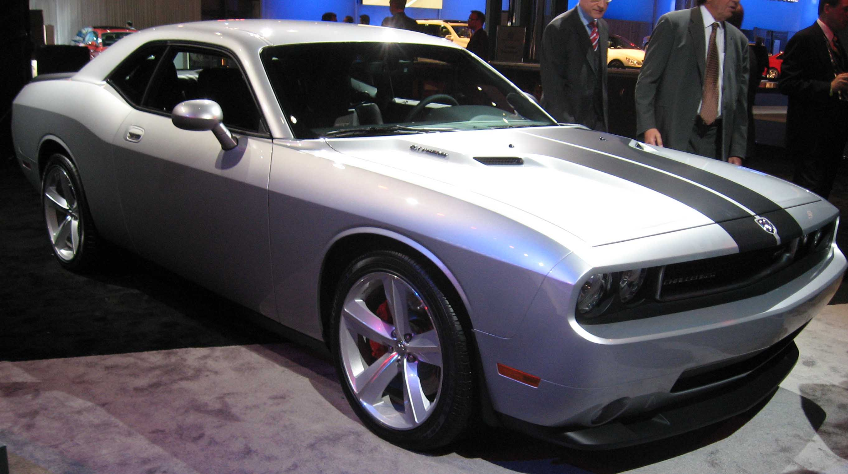 2009 Dodge Challenger photographed at the 2008 New York Auto Show.